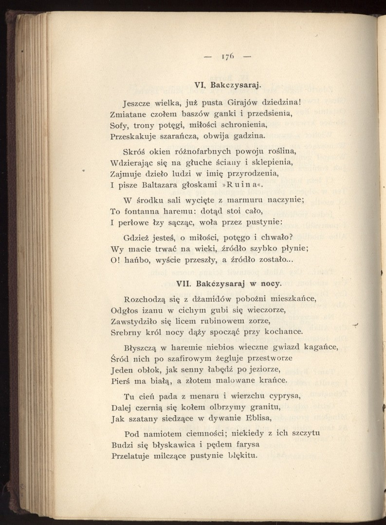 Poems by Adam Mickiewicz. V. 1. - Kraków; 1899; Adam Mickiewicz (1798-1855)